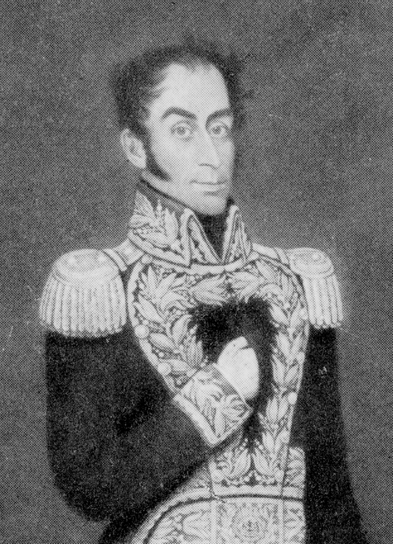 Simón Bolívar (1783-1830), full-length portrait, standing, facing right.Caption: Al Señor General Sir Robert Wilson:Retrato mío hecho en Lima con la más grande exactitud y semejanza.BOLIVAR.